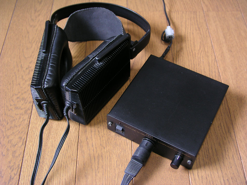 STAX Earspeaker Lambda Nova BASIC SYSTEM. Electrostatic Earspeaker system with Driver Unit.